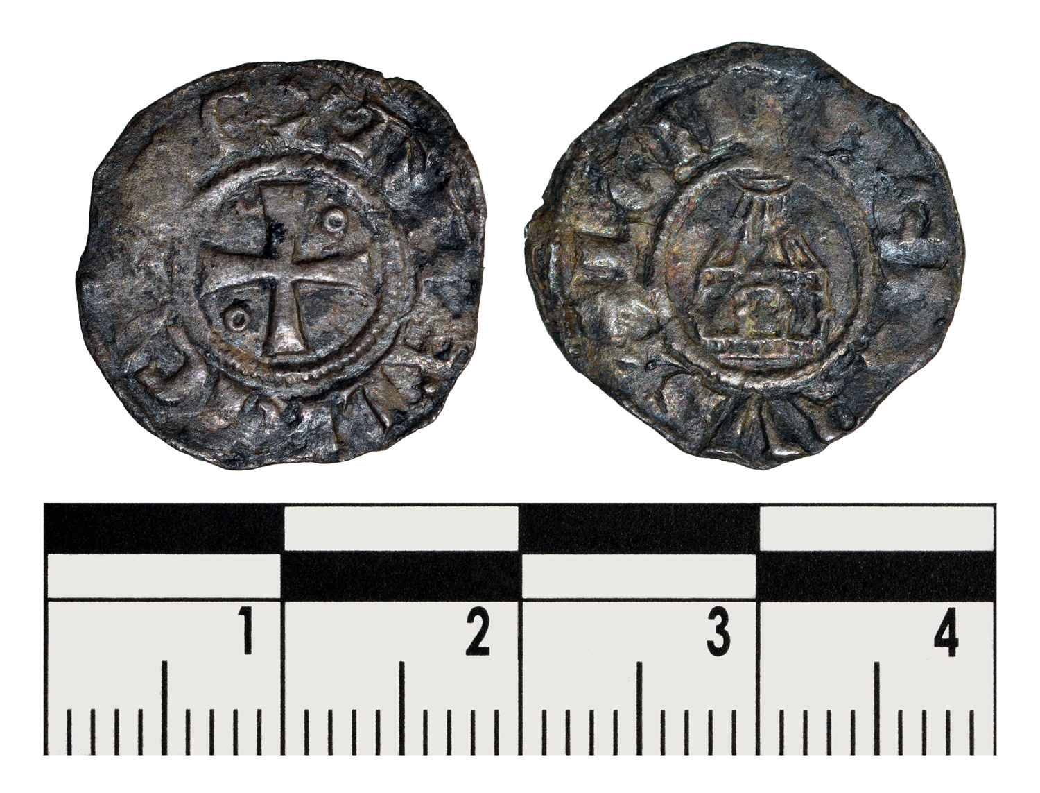 Coin of Amaury (1163-1174): Amaury and his successors used the Holy Sepulchre on the obverse image for their deniers as a way of strengthening their relationship with the church where they were both coronated and buried. This helped to reinforce the legitimacy of the dynasty's claims to the Kingdom of Jerusalem.